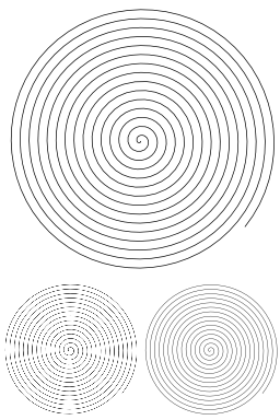 An illustration of a moire effect. The spiral (top) has been resized two times: without antialiasing filter (bottom left) and with it (bottom right).